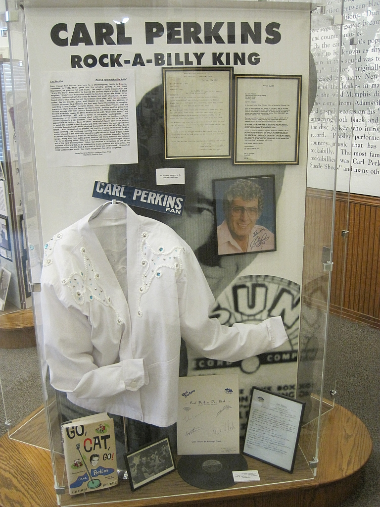 West Tennessee Music Museum at the West Tennesse Delta Heritage Center, 121 Sunny Hill Cove in Brownsville, Tennessee